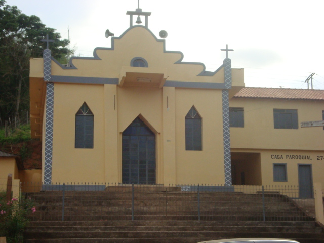 São Barnabé church